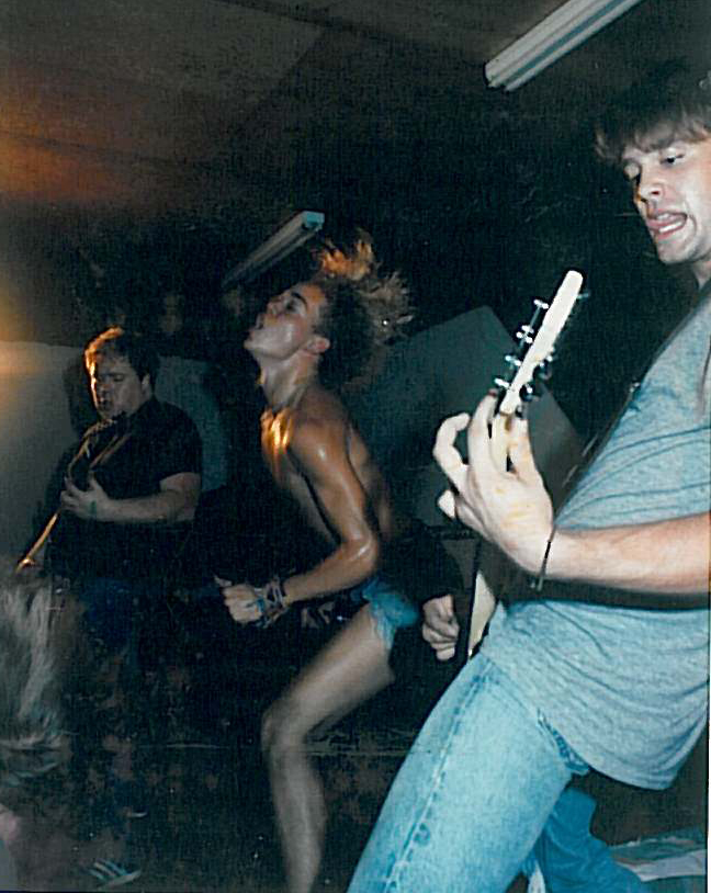 Bored Suburban Youth (BSY), hardcore punk band from South Carolina, c. 1987.